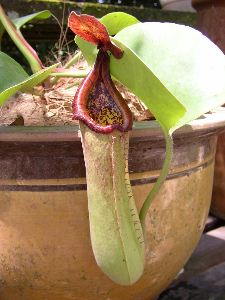 Photo of the plant in a nursery.